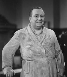 Mario Baroffio-actor